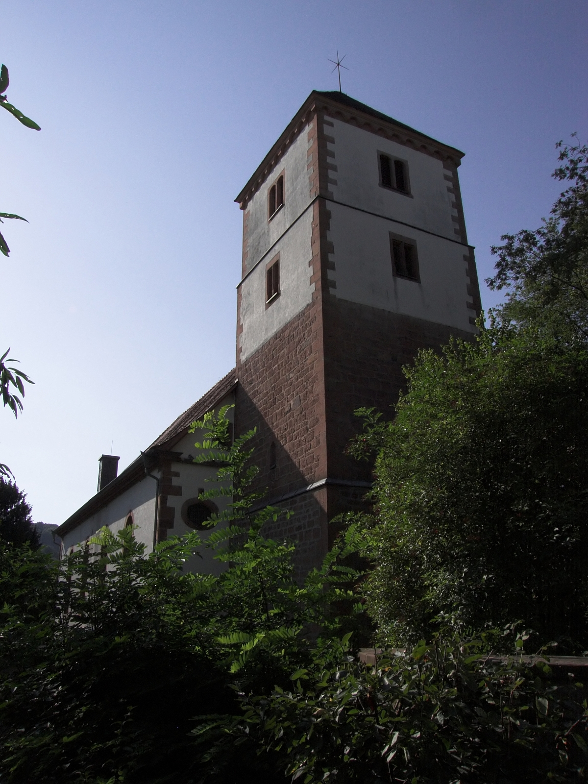 Reformed Church, Wald-Michelbach.